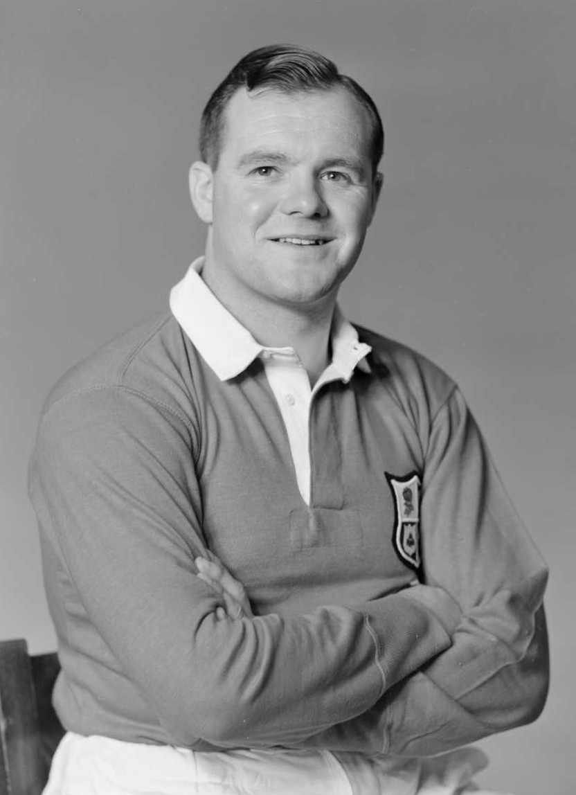 J Matthews, member of the Lions, British representative rugby union team